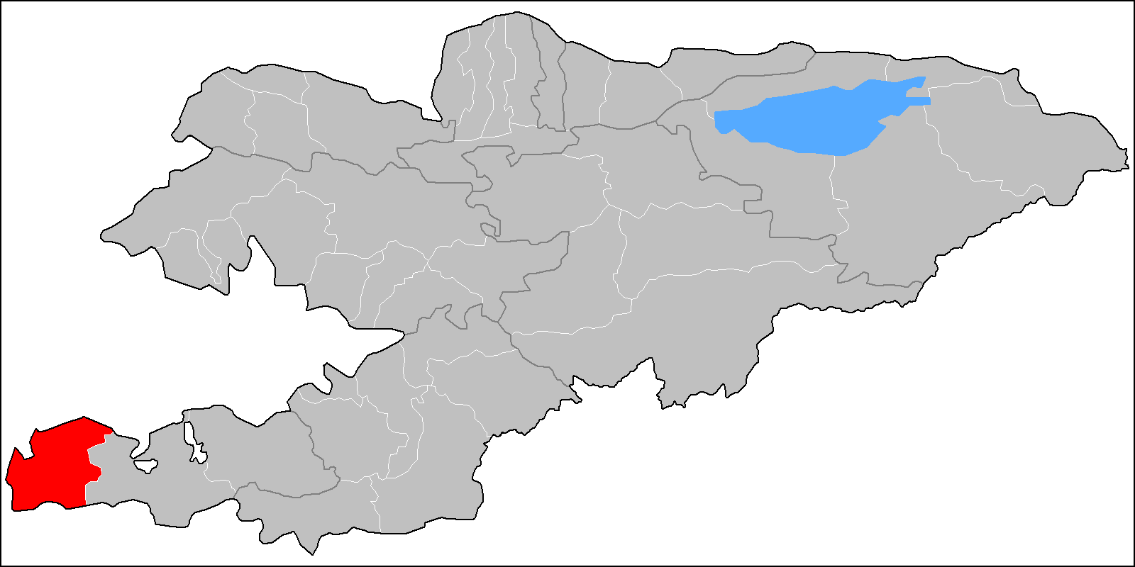 The location of the raion (district) of Leilek in Kyrgyzstan. Based on Image:Kyrgyzstan raions.png